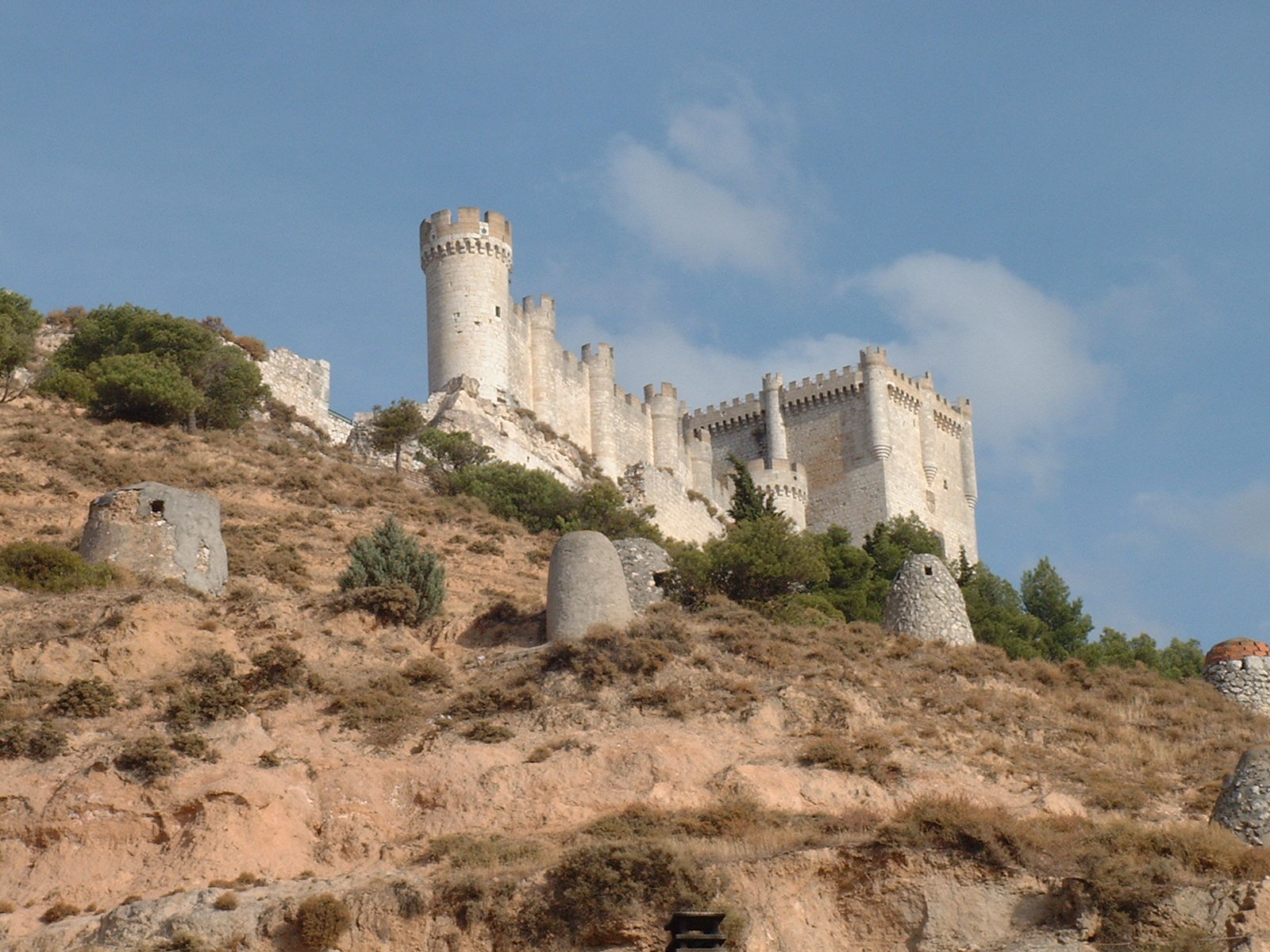 Castillo de Peñafiel, Peñafiel Castle, Valladolid, Spain. Viewed from NW. The vents in the foreground are for the ventilation of underground caves used as wine cellars because they keep constant low temperature all around the year.